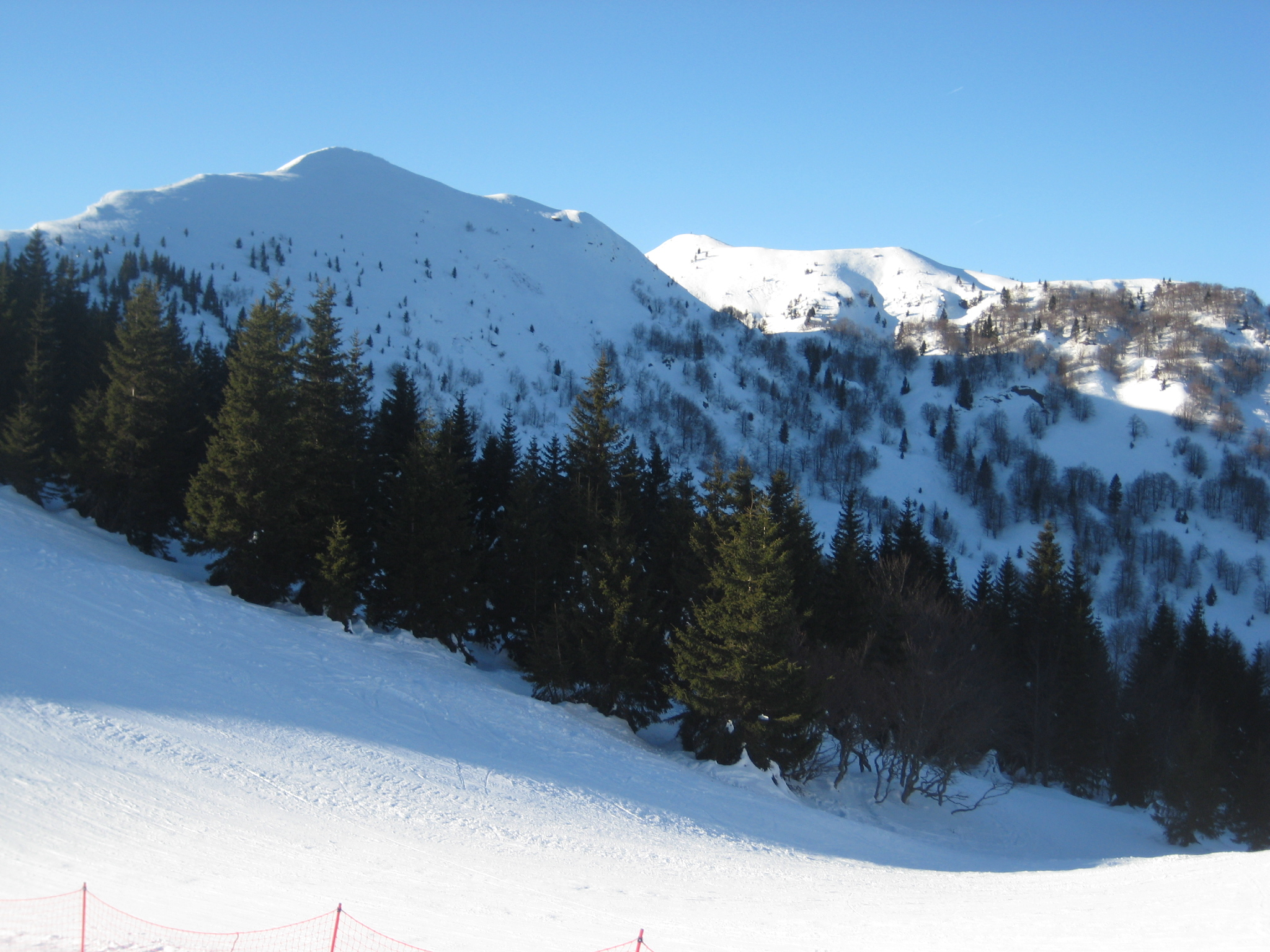 Mountains Slatnik (left) and Šavnik (right), Slovenia. View from Sorica ski resort.